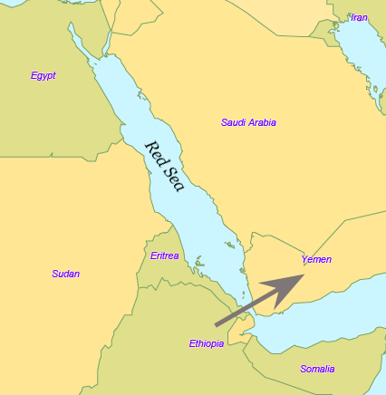 Migration route from Africa about 70 millenia ago according to the recent African origin hypothesis.